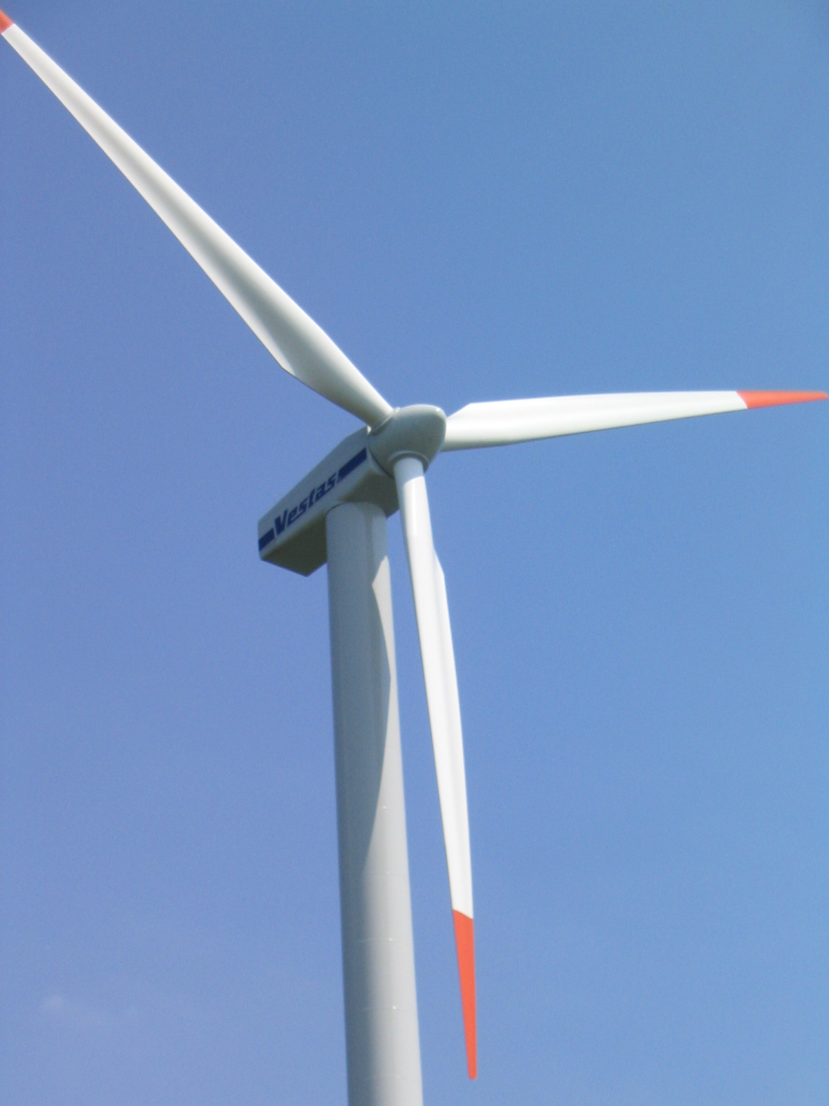 Vestas Wind energy converter in Süderdeich